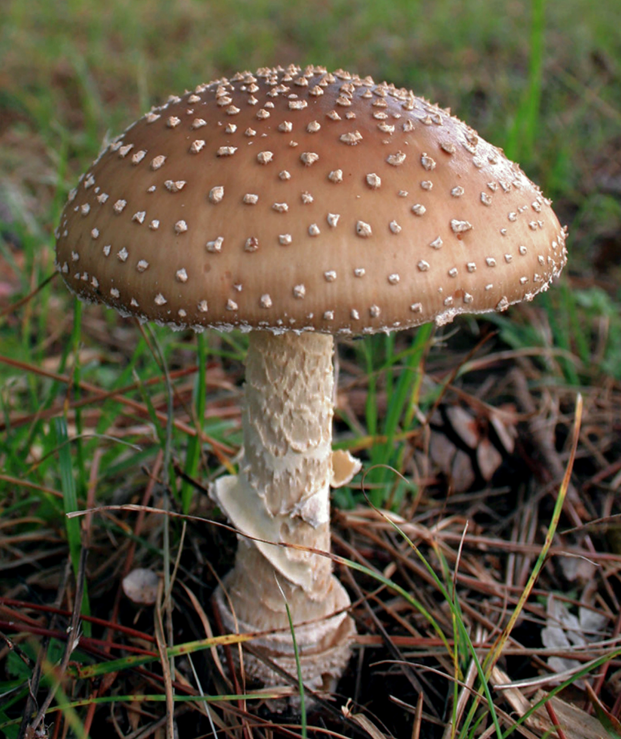 European Panther (Amanita pantherina)